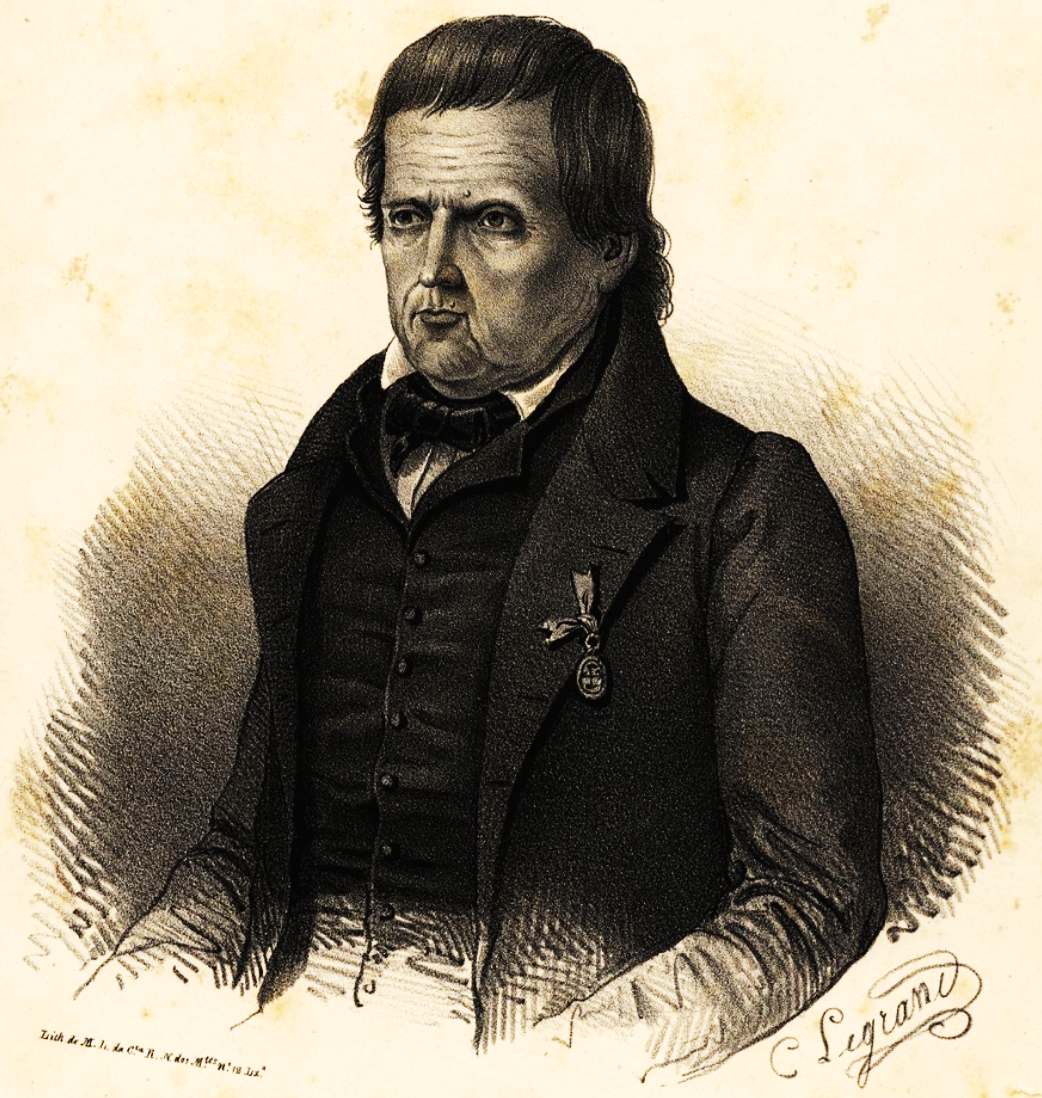 Félix de Avelar Brotero (1744—1828), Portuguese botanist.